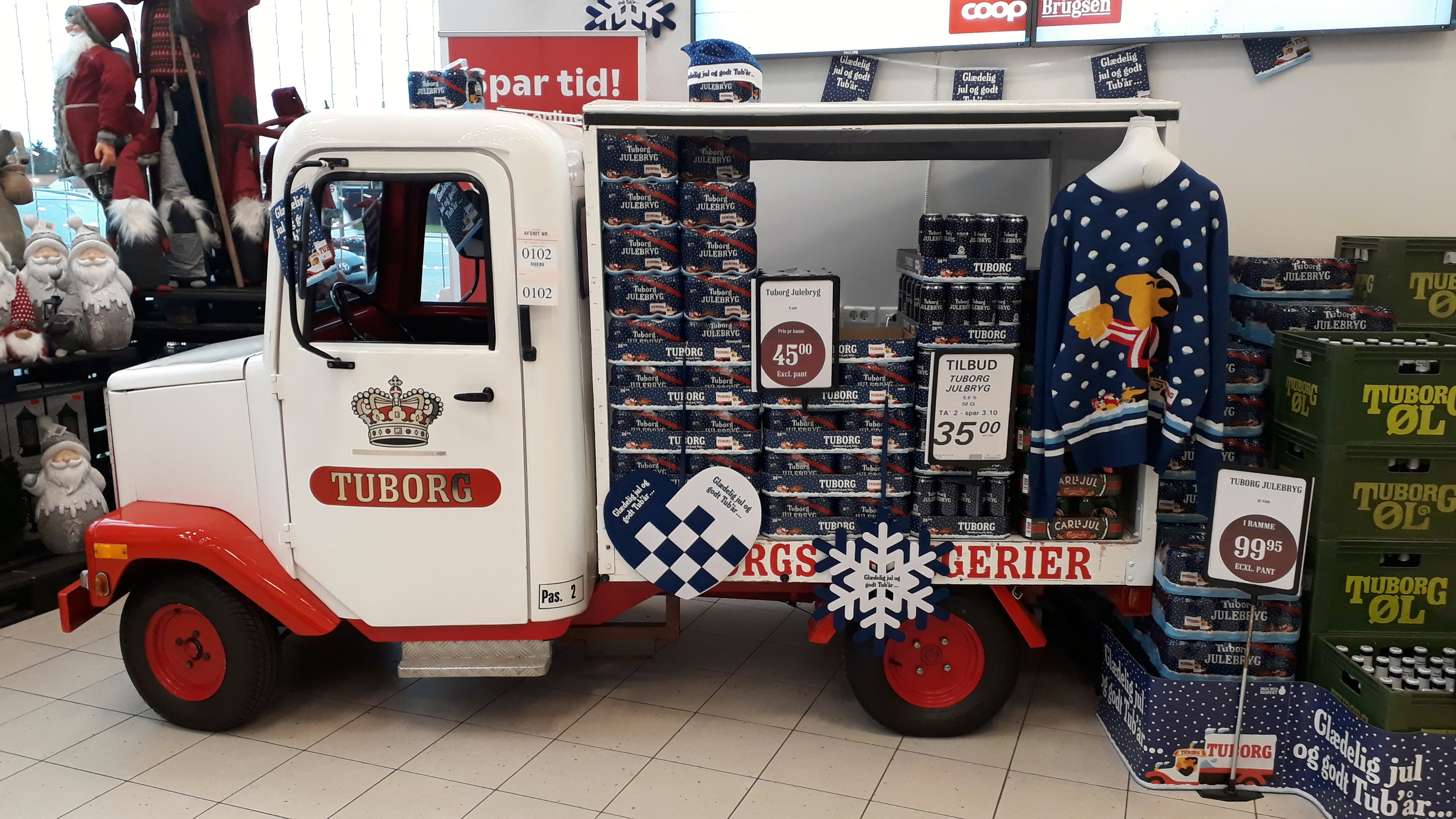 Christmas Beer (Tuborg Julebryg) advertisement installation in a local store in Denmark